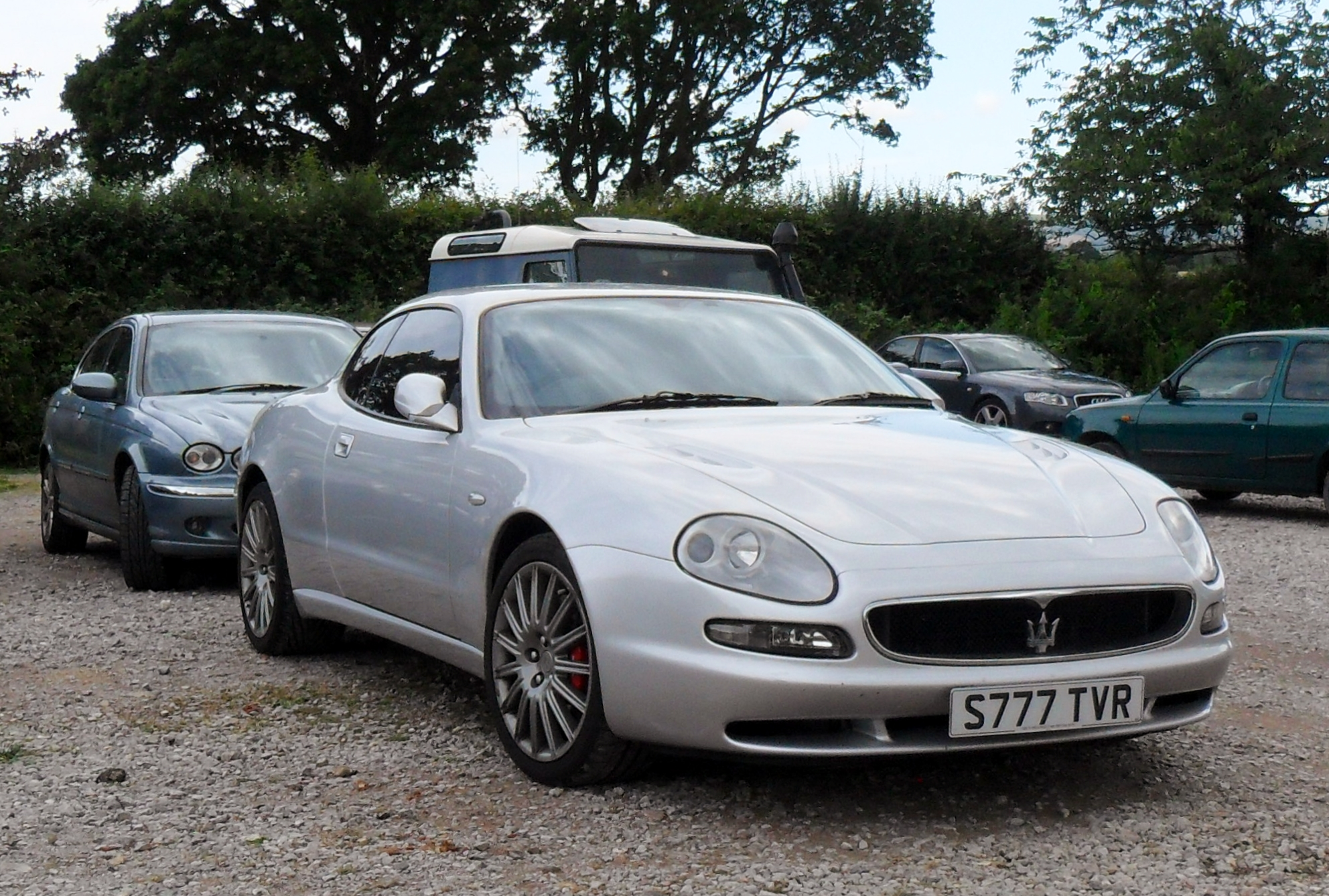 Near Lewes.